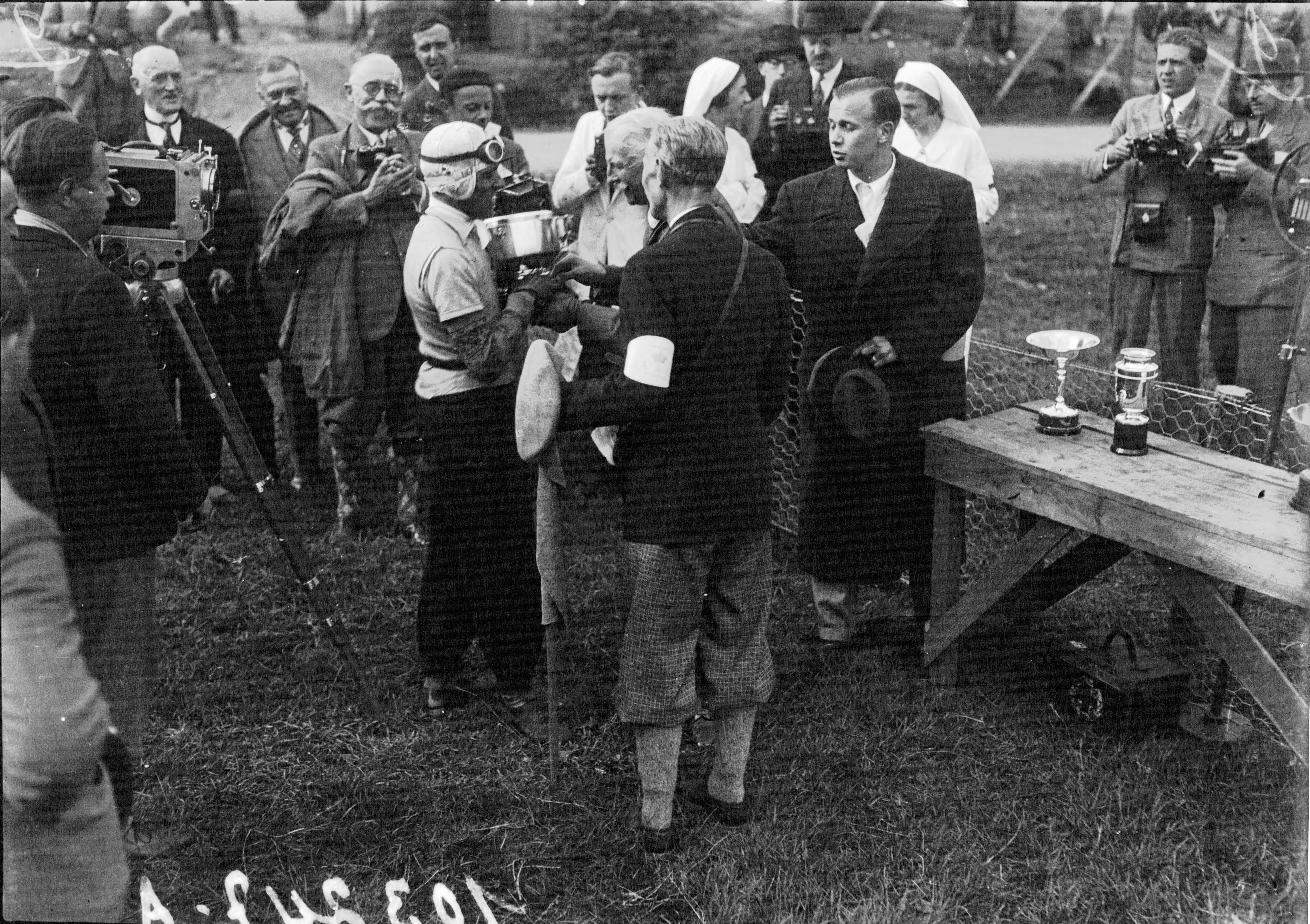 Tazio Nuvolari at the 1933 Belgian Grand Prix